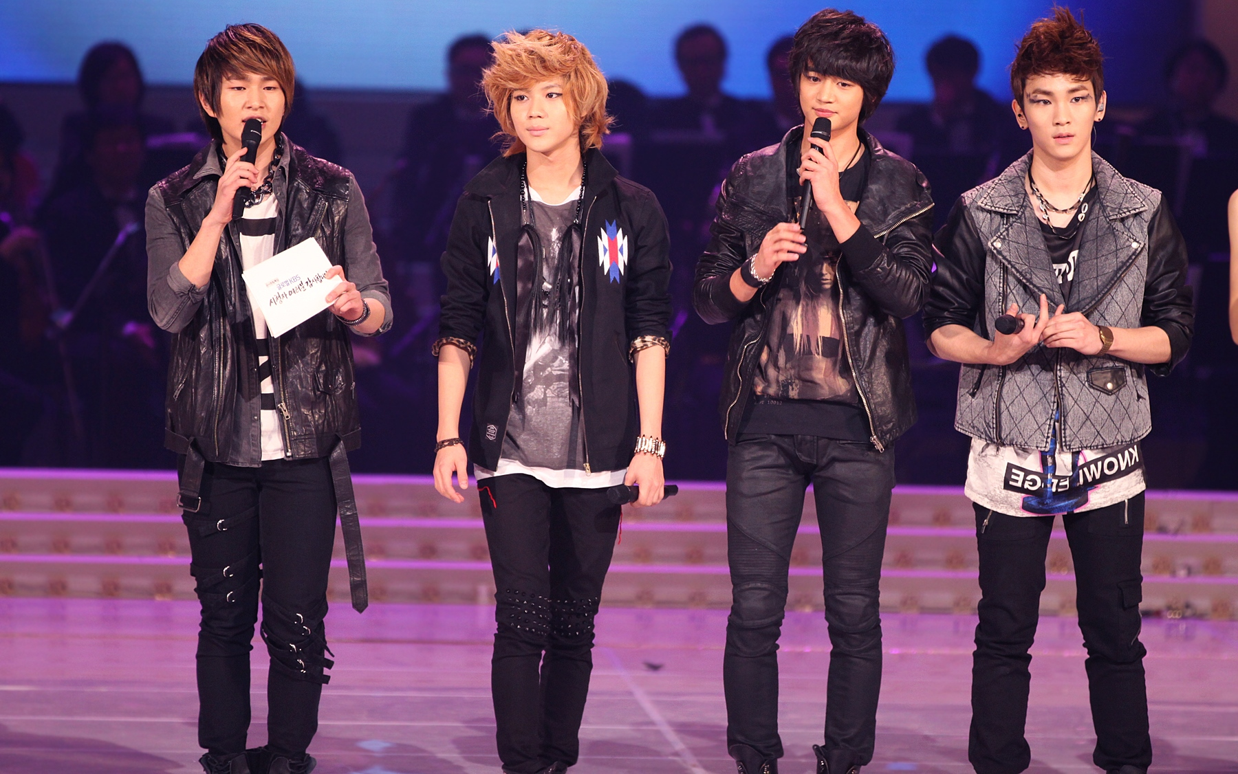 Shinee at the KBS inaugural concert on March 3, 2011.